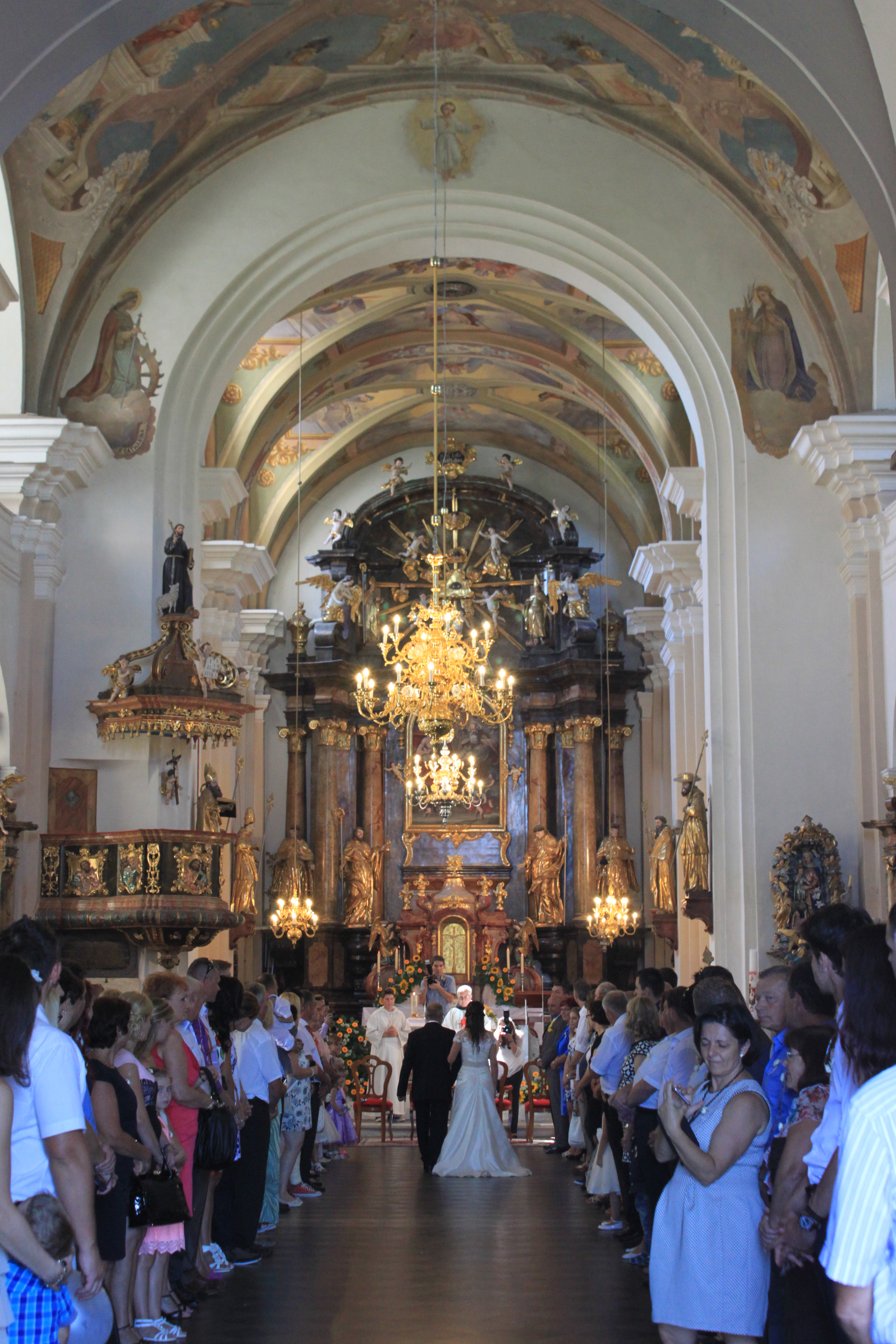 Church Holy Trinity; Heilige Dreifaltigkeit in den Windischen Büheln (Sveta Trojica v Slovenskih Goricah); Slovenia. View of the inside.